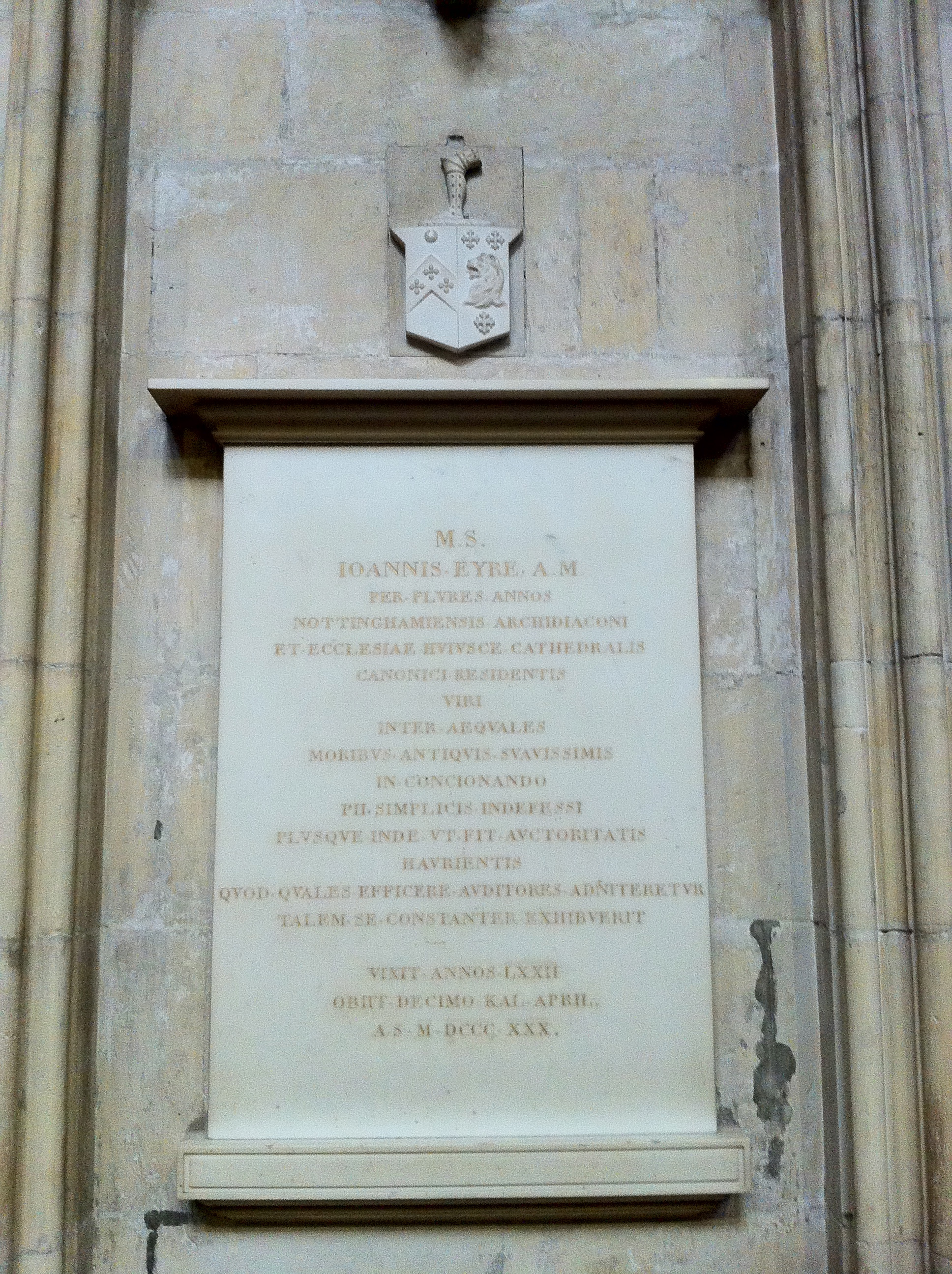 Memorial to John Eyre, Archdeacon of Nottingham, in the north choir aisle of York Minster